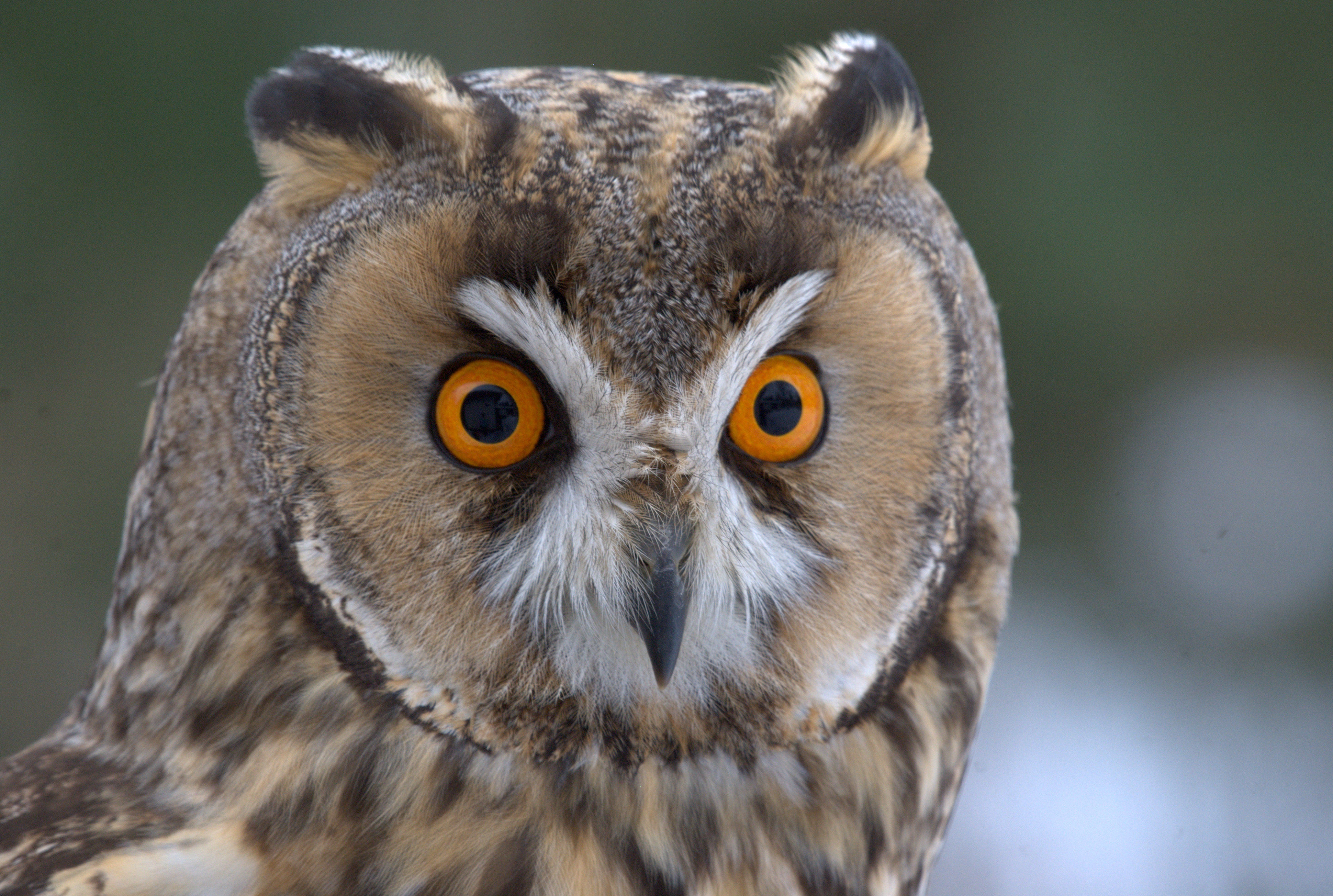 Long-eared Owl